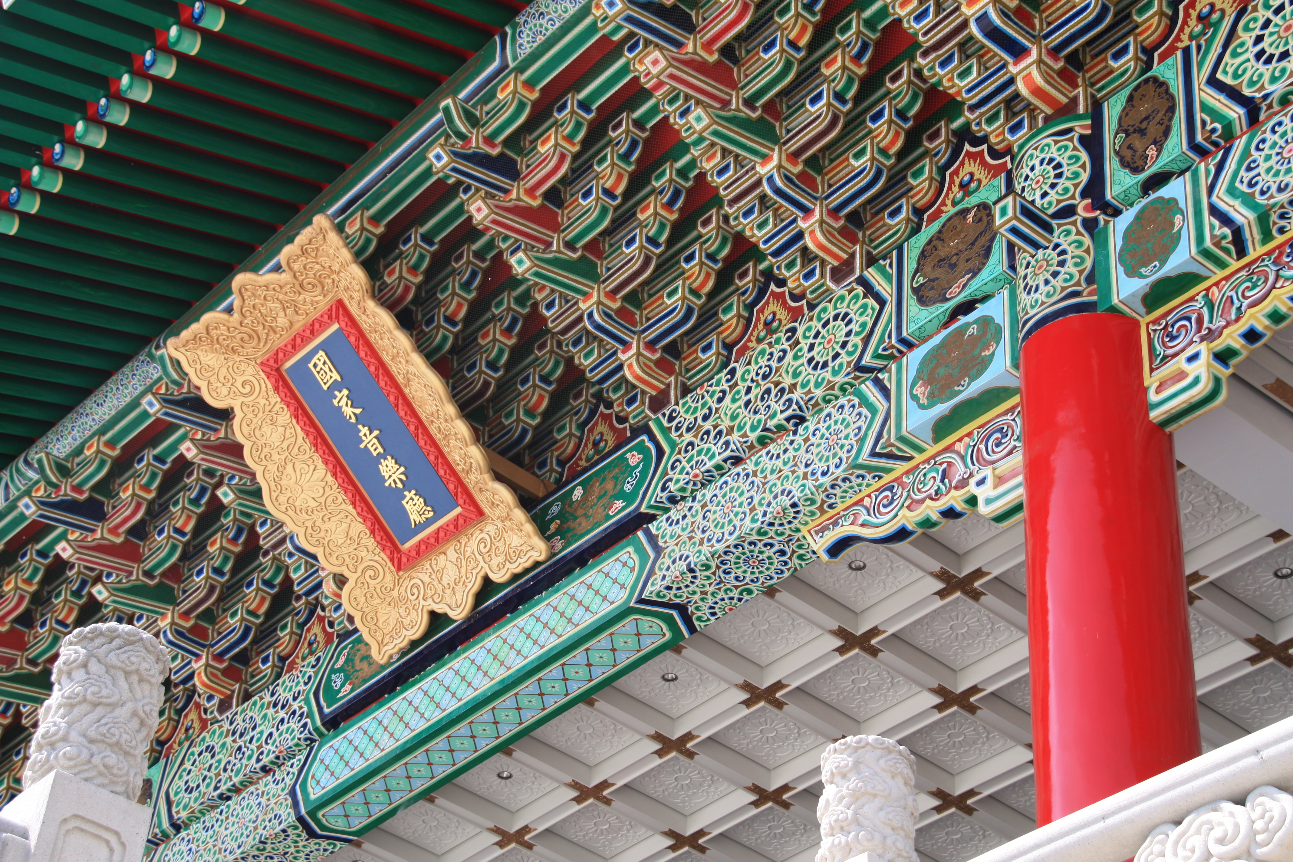 TáiběiZhōngzhèng DistrictChiang Kai-shek ParkNational Concert HallRoof ornaments